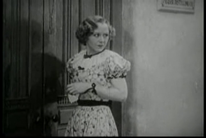 Alberta Vaughn in Randy Rides Alone, a 1934 film by Harry L. Fraser